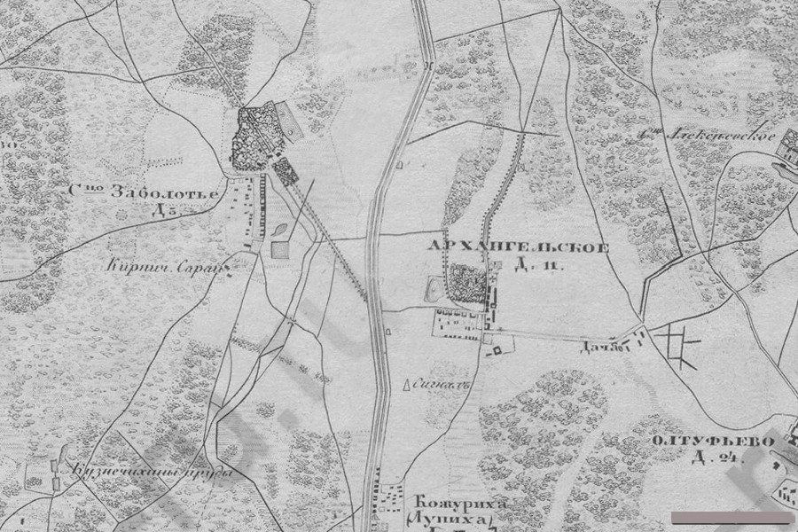 Plan of Arkhangelsk-Tyurikova in 1878.